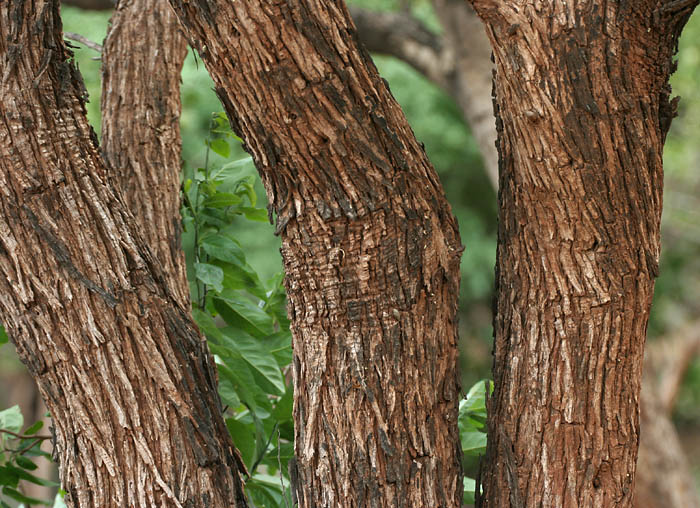 Khair Acacia catechu in Hyderabad , India.